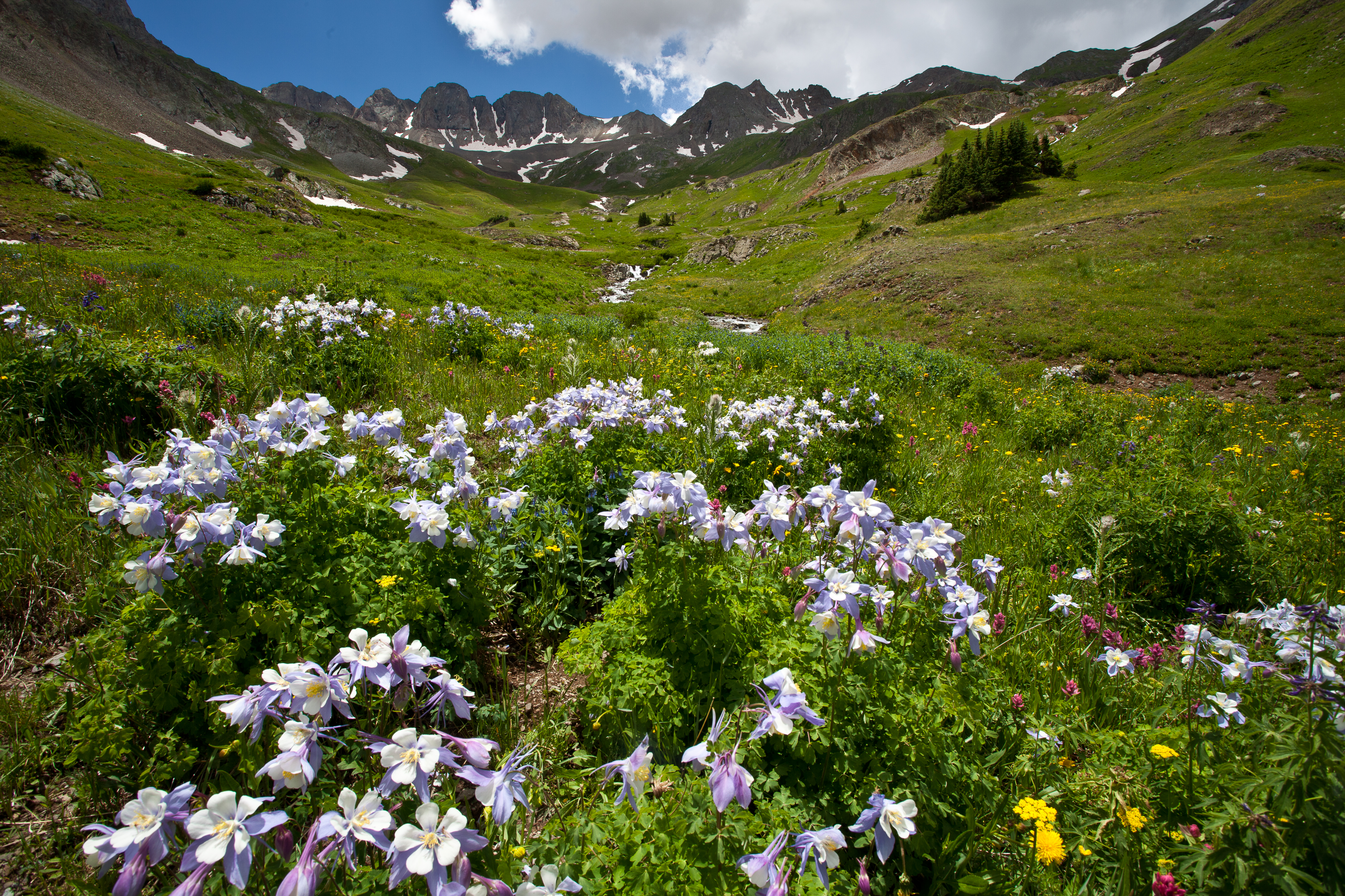 The scenic quality of the Handies Peak Wilderness Study Area in Colorado is outstanding due to the interaction of mountainous landforms; multi-colored rock strata; diverse vegetation; and vast, open vistas. Handies Peak itself rises 14,048 feet (4,282 m) over the area and is the highest point of land managed by the Bureau of Land Management outside of Alaska. This WSA also hosts 12 other peaks that rise over 130,000 feet (40,000 m), three major canyons, numerous small drainages, glacial cirques and three alpine lakes. The geomorphology shows a variety of volcanic, glacial and Precambrian formations. A rock glacier formation is also located at the head of American Basin. Vegetation consists mainly of mixed sprice, fir, aspen, alpine grasses, sedges, and forbs. Fauna includes elk, deer, black bear, various small mammals, bighorn sheep, and very rarely, mountain goats. Recreation activities include hiking, backpacking, camping, mountain climbing, and photography. Please note that though unconfined recreation is encouraged in WSAs, specific types of recreation may be barred from a specific area to prevent degradation of natural conditions. Plan your trip: Photo: Bob Wick, BLM California